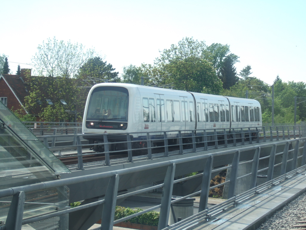 Copenhagen Metro train on approach to Flintholm station, Copenhagen, Denmark Taken by M. Wickett